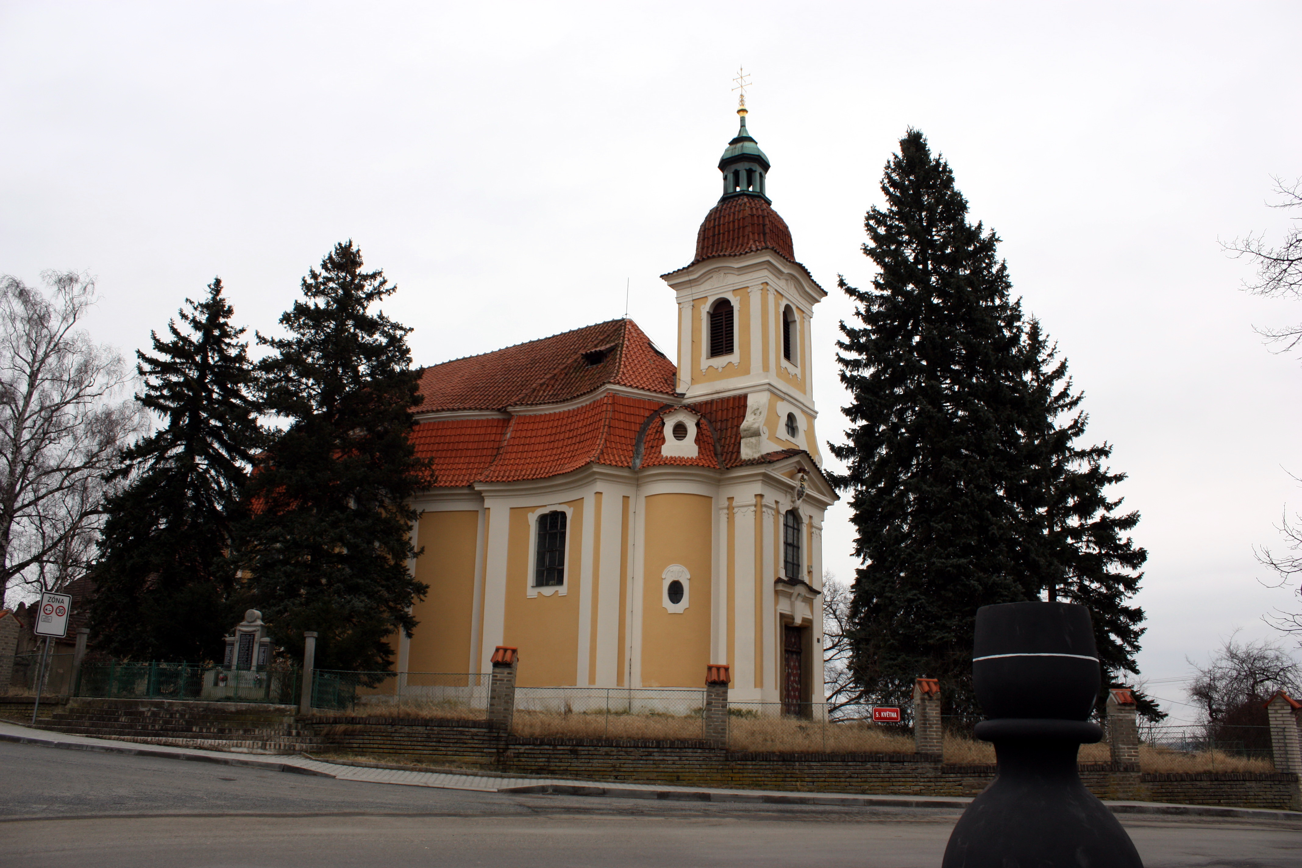 Baroque Church in Rudná, Central Bohemia, Czechia. (Build 1740-1747)